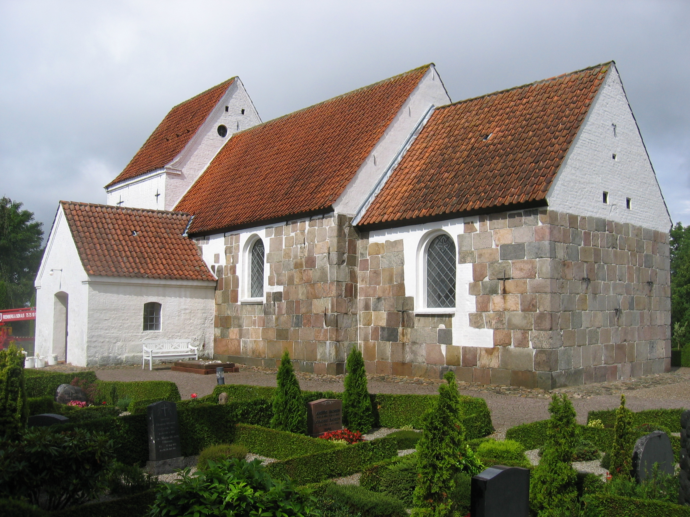 Nim Church, Nim parish, Nim Herred, Skanderborg County, Denmark.